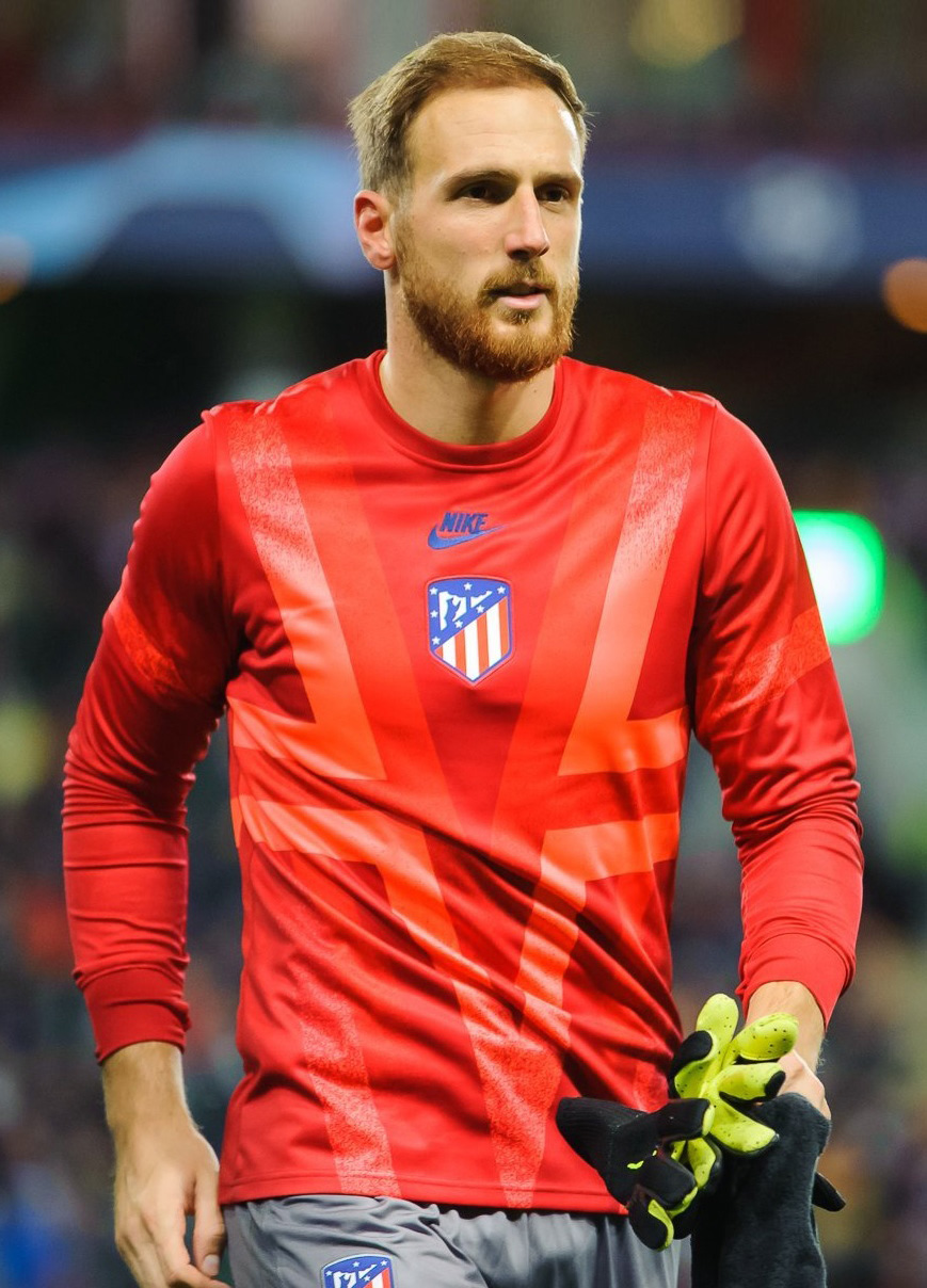 Jan Oblak with Atlético Madrid before the Champions League game against FC Lokomotiv Moscow.